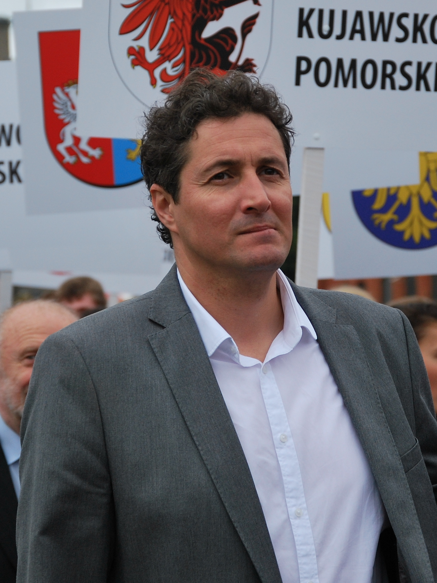 Artur Partyka, former polish high jumper